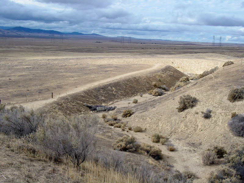 This view of the Wallace Creek (offset stream) is of perhaps the most famous feature on the San Andreas Fault. As the stream continues to progressively erode into its channel, right-lateral motion along the San Andreas Fault has moved the downstream portion of the channel northward. Sediments cut by Wallace Creek were radiocarbon dated at about 3,700 years old, and the stream channel has been offset about 430 feet since then (Sieh and Wallace, 1987). Earthquake fault investigations in the Carrizo Plain show that as many streams in the park area display evidence of right-lateral slip. Offset from the 1857 earthquake was in the range of 30 feet; two earlier earthquakes had slip displacements of about 40.6 feet (sometime between 1540 to 1630 A.D.) and 36 feet possibly between 1120 and 1300 A.D. (Sieh and Wallace, 1987). Offset along the fault shows a relative rate of motion in the in the Carrizo Plain (between A.D. 1210 and A.D. 1857) has averaged in the range of about 1.3 inches (34 mm) per year (Liu-Zeng and others, 2006).